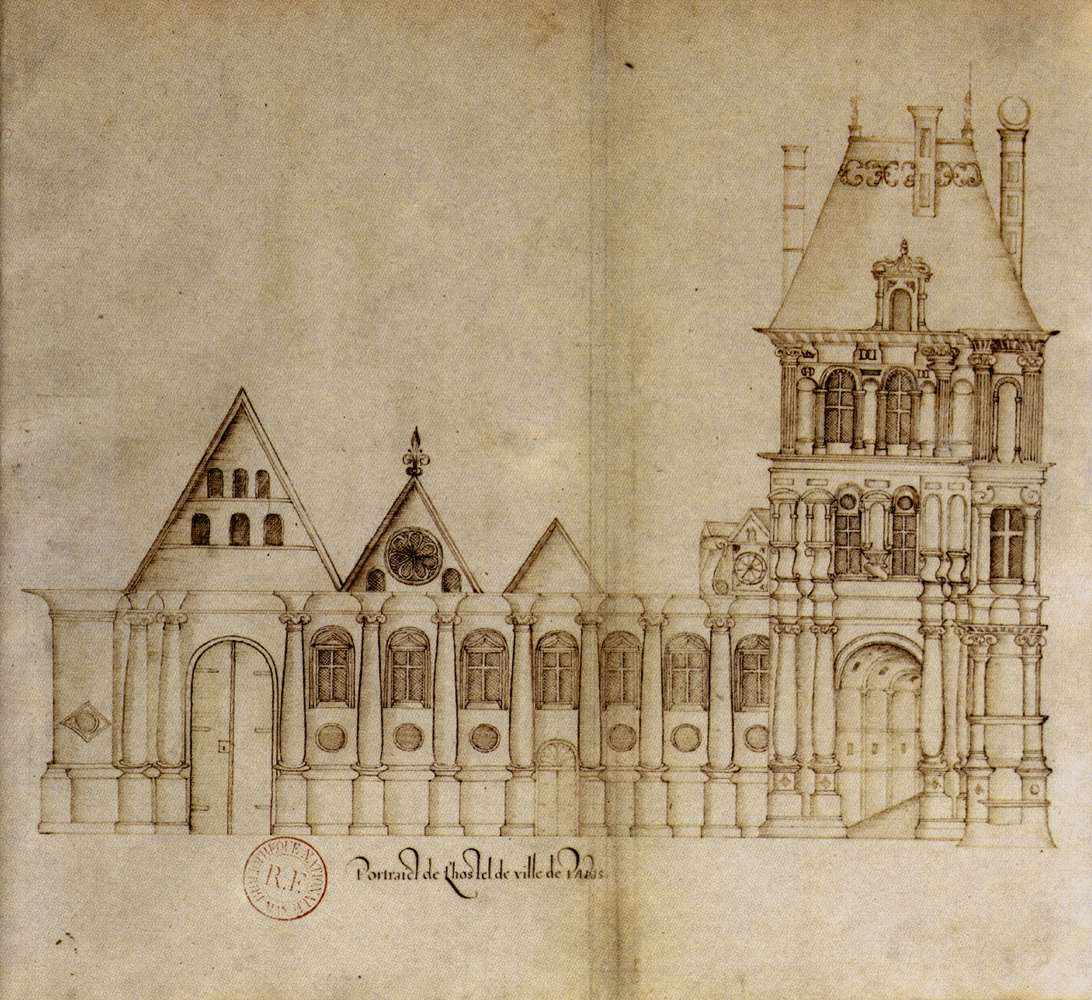 The Hôtel de Ville in Paris, designed by Domenico da Cortona. This drawing shows the building partially constructed: the upper floors remain unbuilt, except for the Pavillon Saint-Jean on the right.